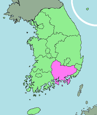 area map of Gyeongsangnam